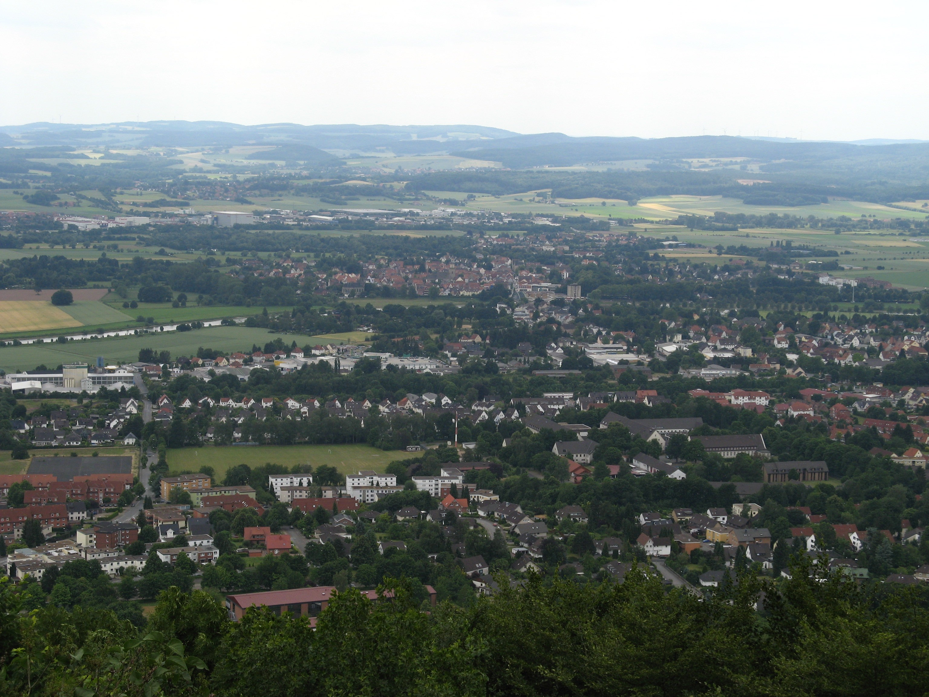 View of Rinteln (Niedersachsen) from above